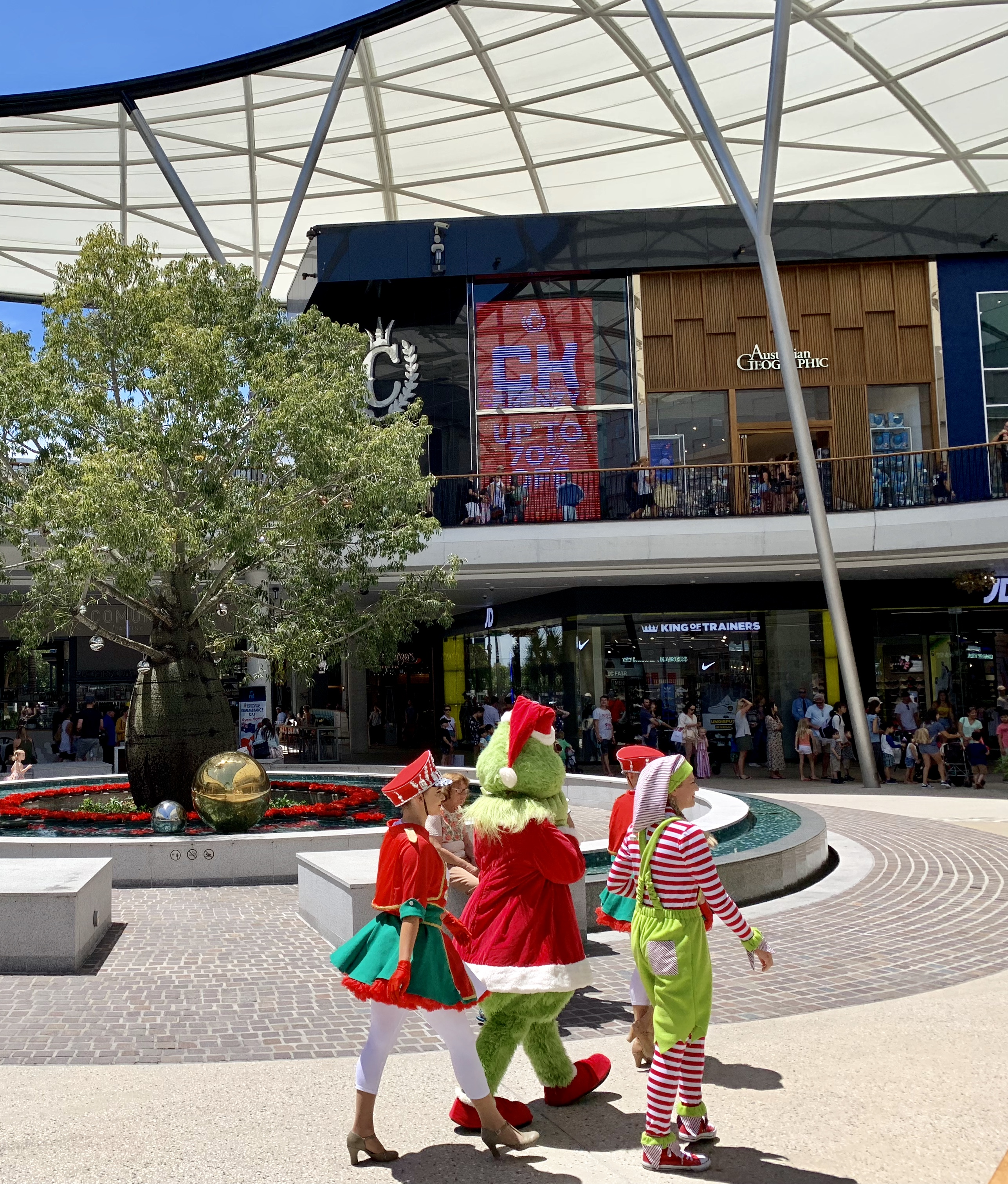 Grinch at the Pacific Fair, Gold Coast, Australia, 2018